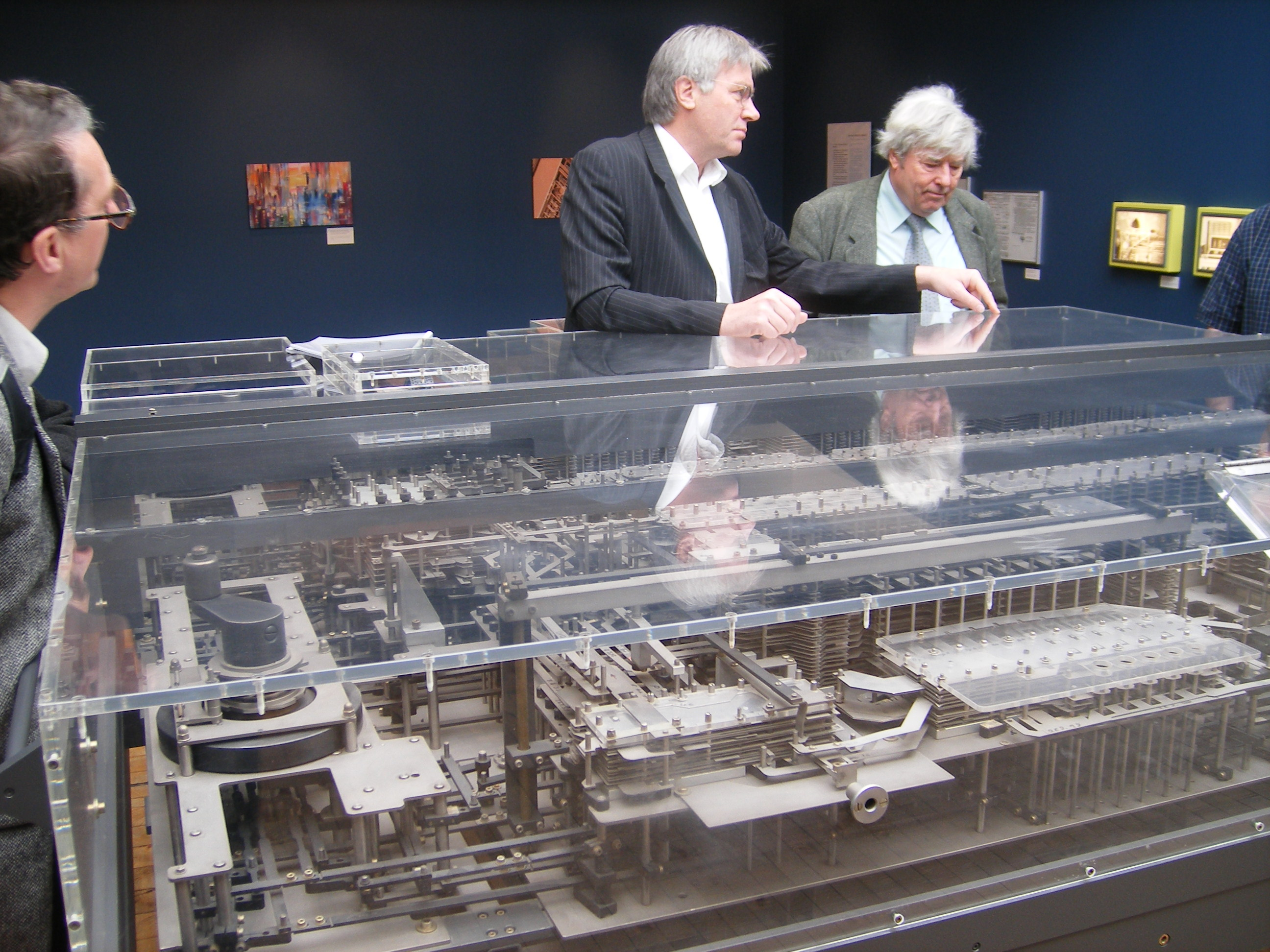 The original Z1 was destroyed in bombing raids on Berlin in WWII. This reconstruction from 1989 is being shown to the group by Dr. Horst Zuse, the son of Dr. Konrad Zuse. A work of art in metal.